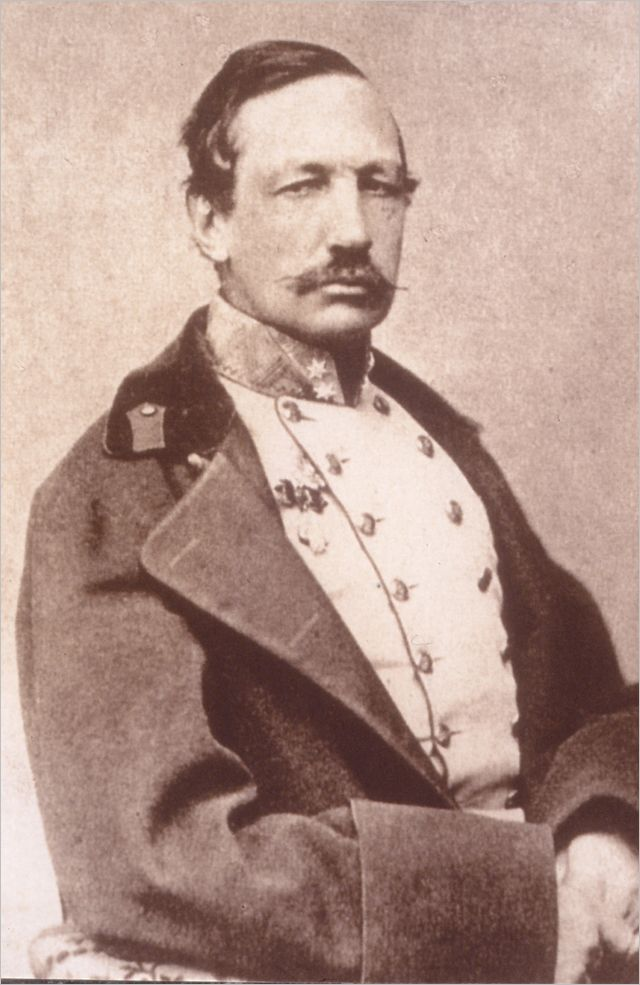 Archduke Franz Ferdinand Geminianus of Austria-Este (1819–1875), from 1846 until 1859 Duke Franz V of Modena, Reggio, Garfagnana, Massa and Carrara.